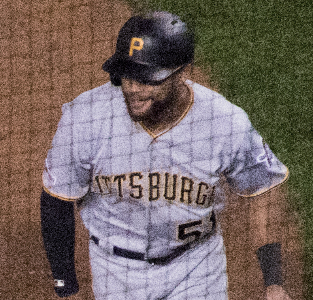 Josh Bell, Adam Frazier, Colin Moran and Jason Martin of the Pittsburgh Pirates celebrate a home run during a 2019 game at Nationals Park in Washington, D.C.